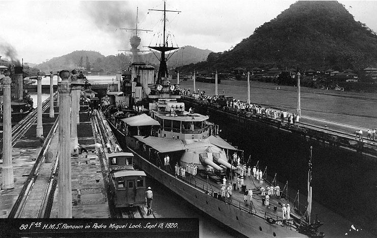 The Royal Navy battlecruiser HMS Renown in the Pedro Miguel Lock, Panama Canal, on 13 September 1920.